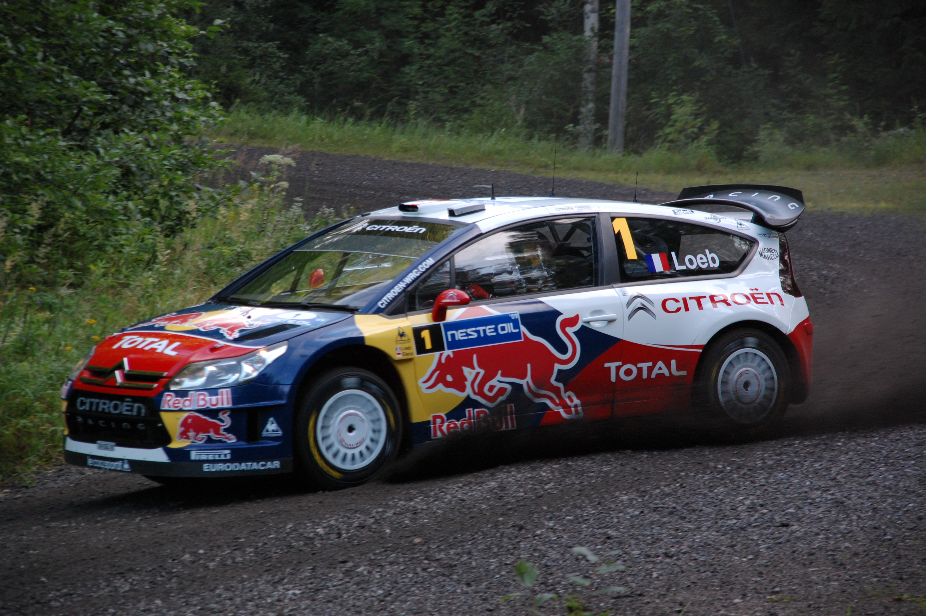 Sebastien Loeb - 2009 Rally Finland. More pictures on my website